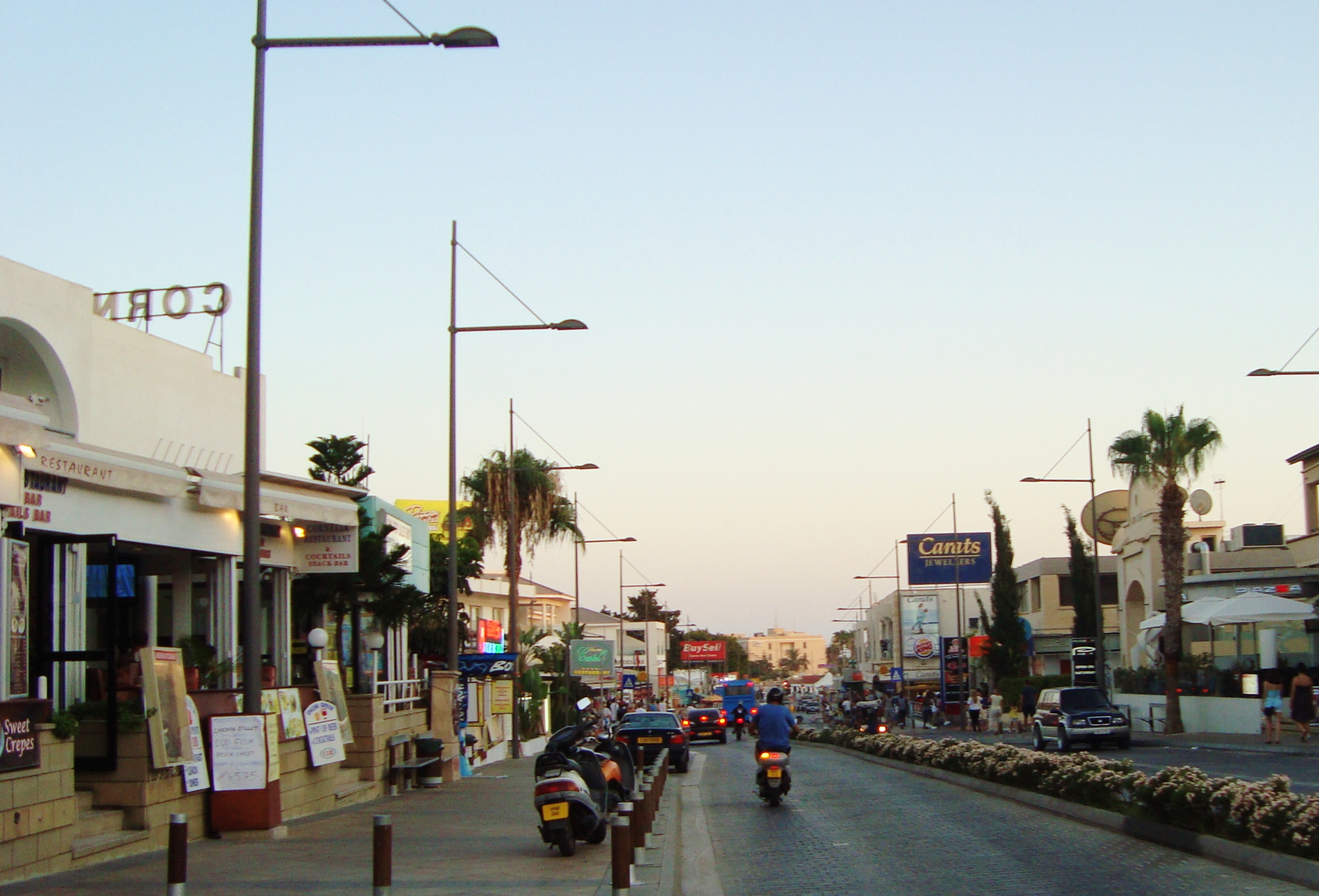 paradise Ayia Napa street in the early afternoon july Republic of Cyprus